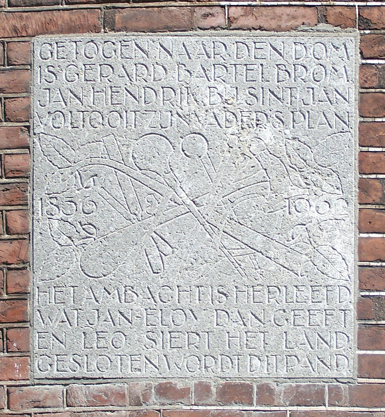 Reliëf in memory of the Studio Brom placed at the former studiobuilding at the Drift in Utrecht. De reliëf is made by Pieter d'Hont with a poem of Jan Engelman.